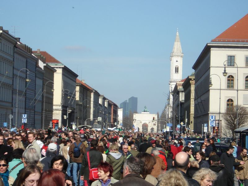 After the Saint Patrick's Day Parade in munich the "Ludwigstraße" is crowded.